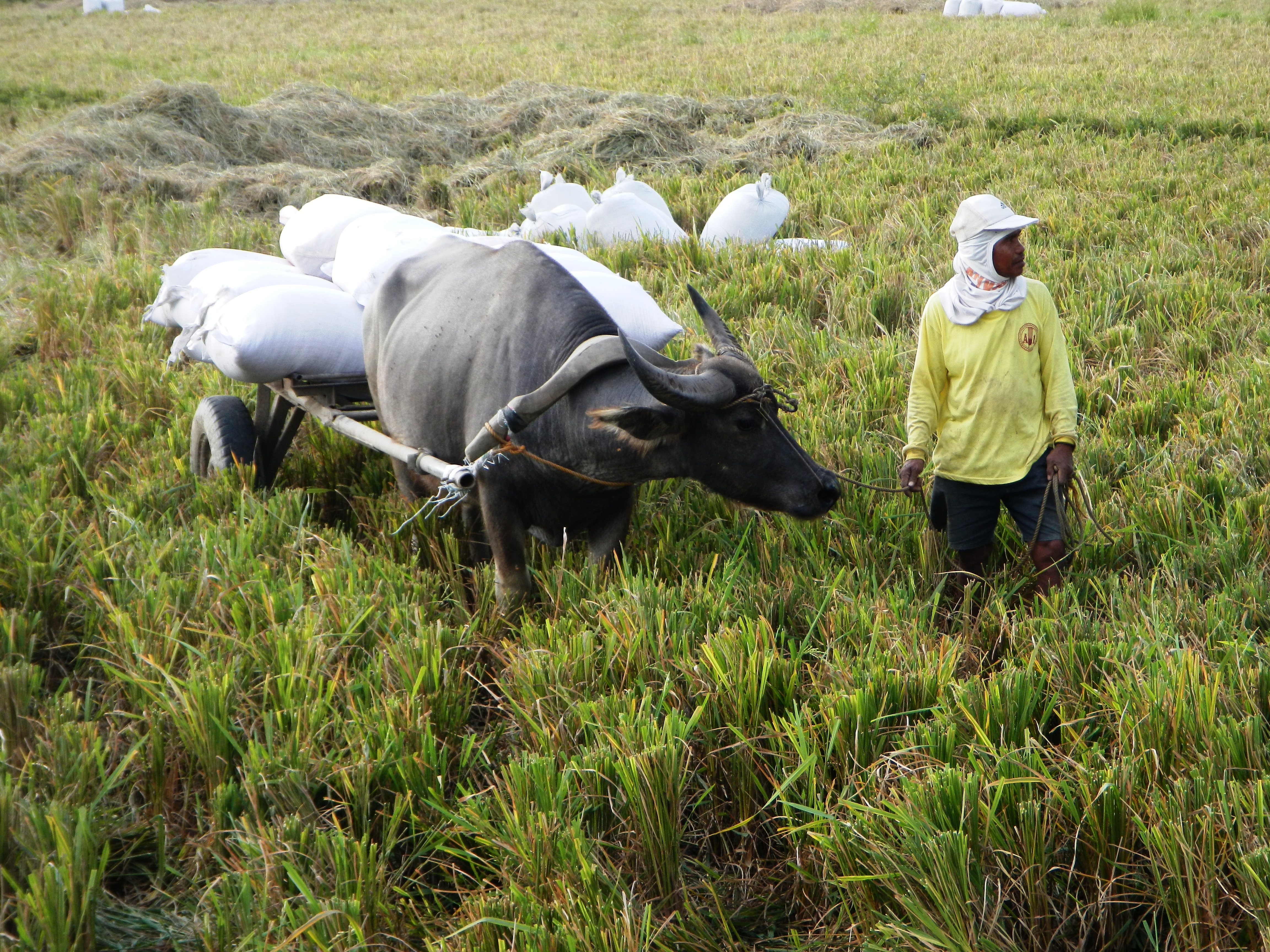 Welcome arch-sign in Science City of Muñoz, Nueva Ecija (Muñoz, Nueva Ecija [1] province tightly guarded by 2 carabao, carriages and Paddy fields in Nueva Ecija along Daang Maharlika) bounded by Santo Domingo, Nueva Ecija).